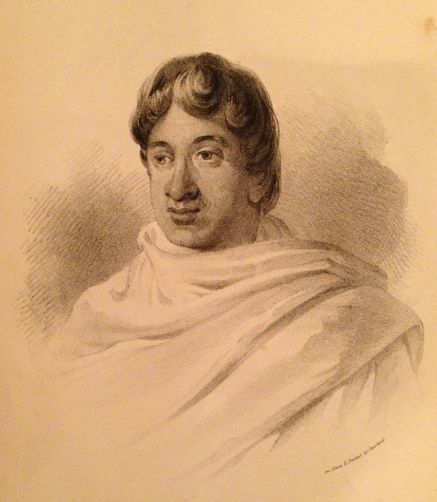 Radama, late King of Madagascar. Illustration by William Ellis from History of Madagascar, Volume 2. On stone and printed by Farland.